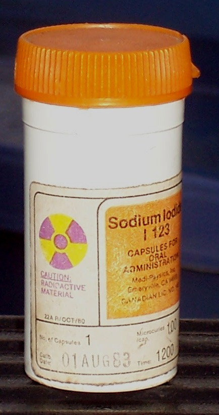 lead container that had been used to transport radioactive sodium iodide (I-123)